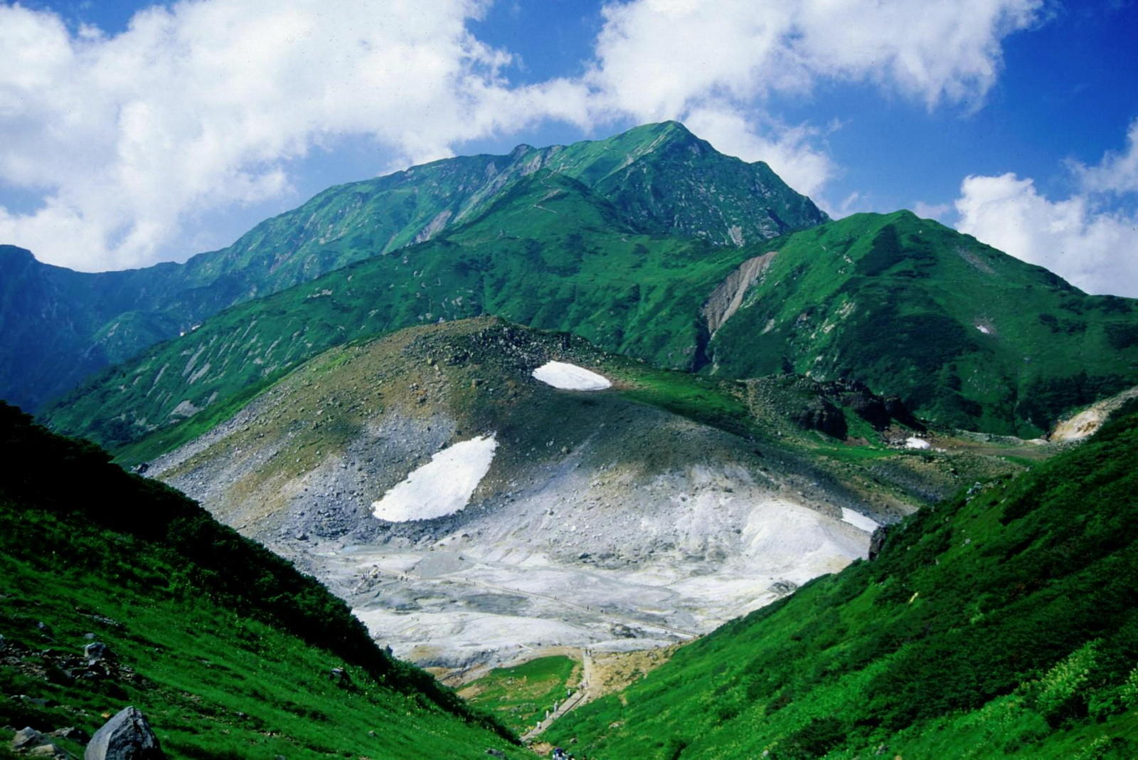 Jigokudani_and_Mount_Okudainichi